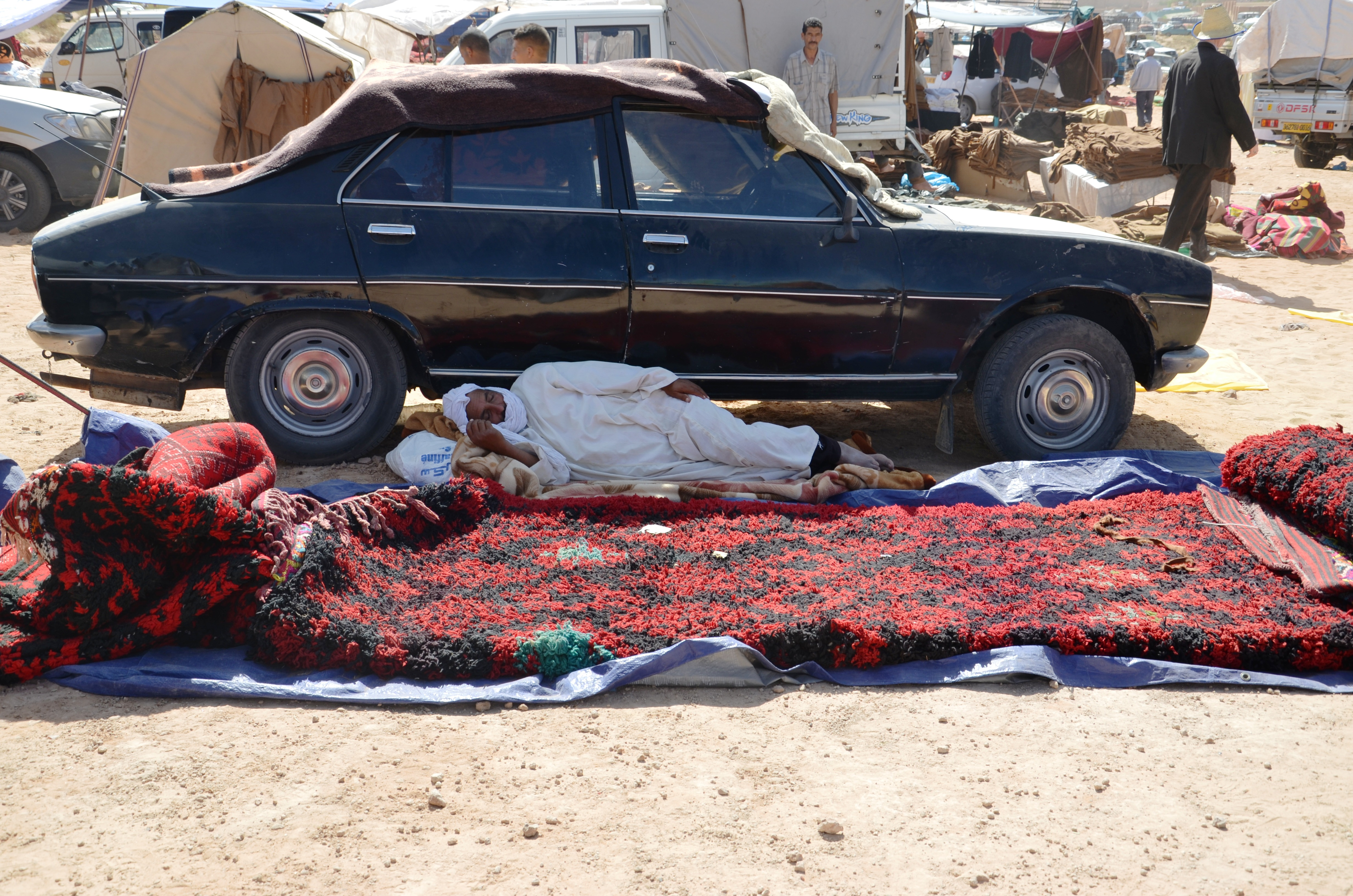 This is an image with the theme "Africa on the Move or Transport" from: Algeria